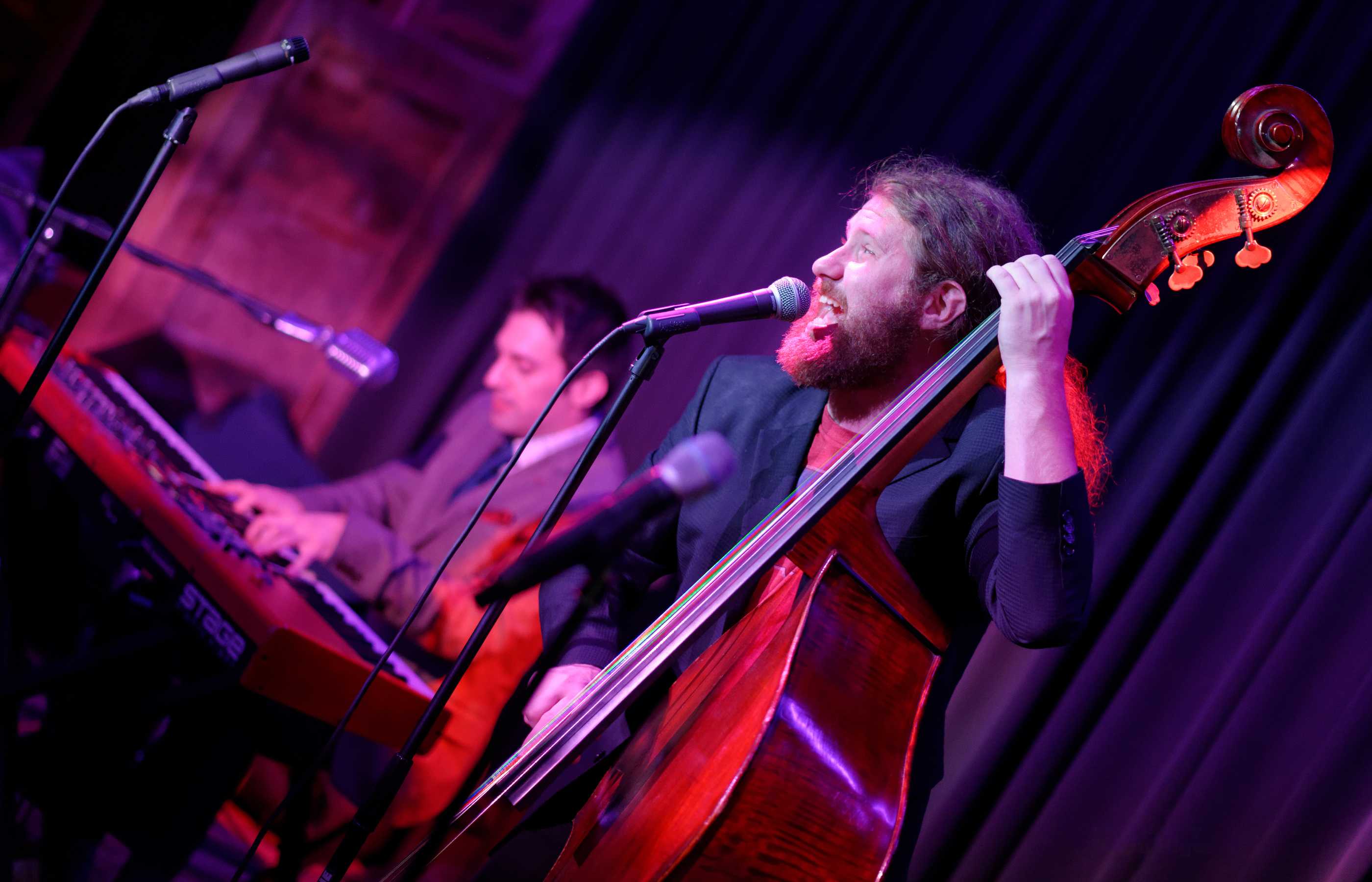 Casey Abrams performing live at Scott Bradlee's weekly "Postmodern Jukebox" music series, at Hyde Sunset Kitchen + Cocktails in Hollywood (Los Angeles) California on Wednesday November 26th, 2014.